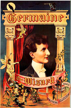 Advertising piece from Karl Germaine